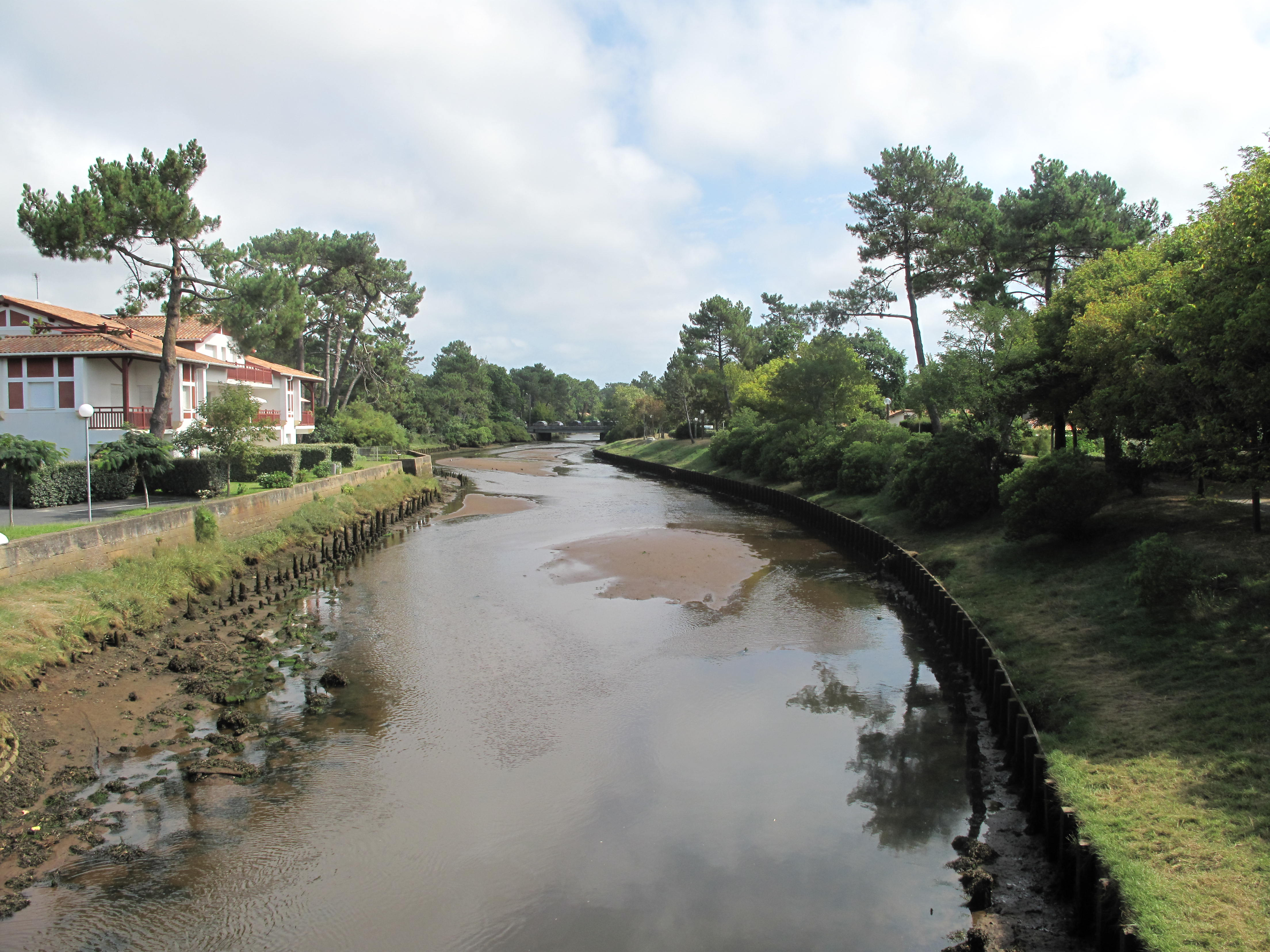 The river "le Bourret" in Capbreton (Landes, France)